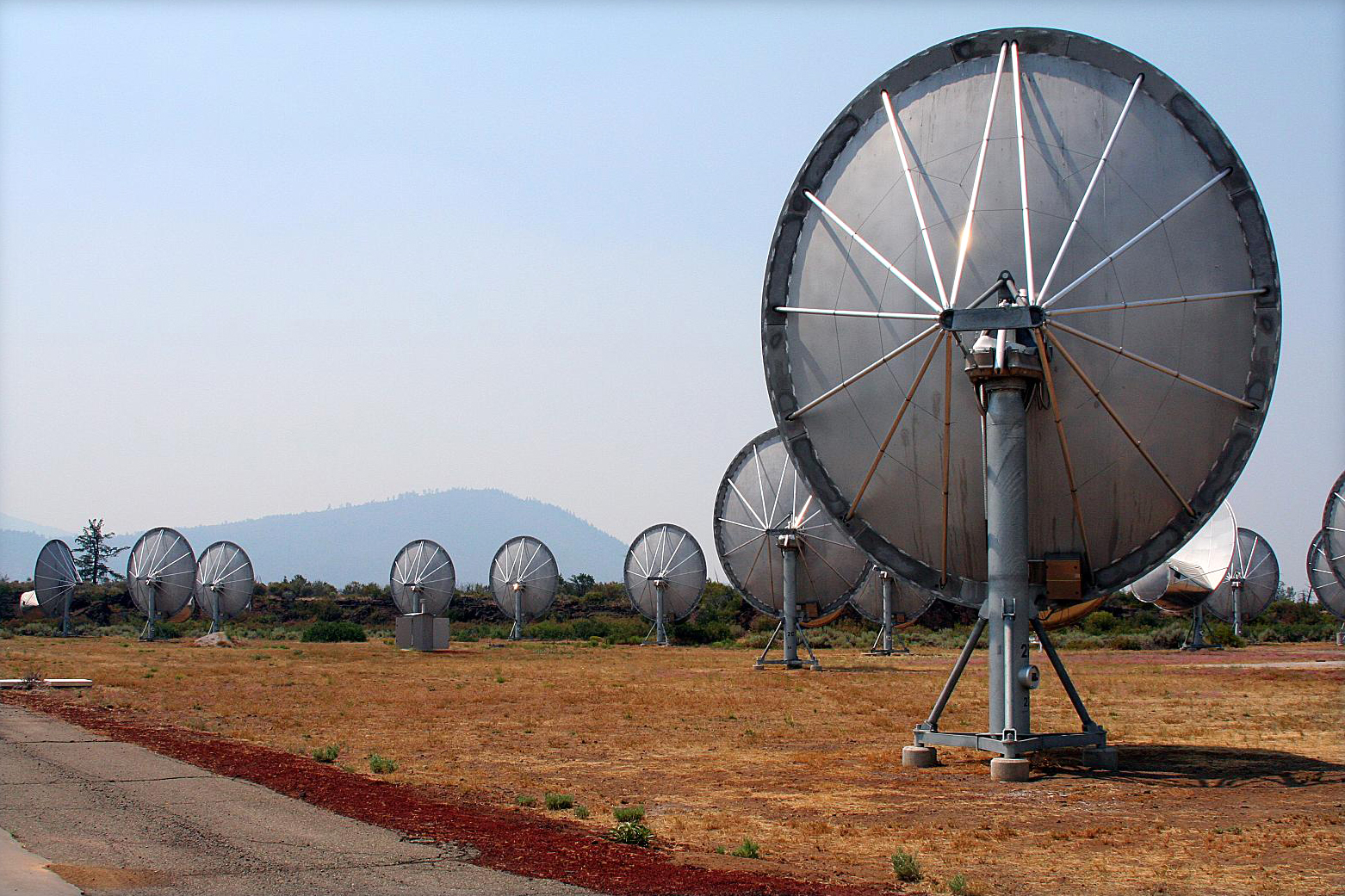 If you're a satellite buff, I've got some frontal shots of these dishes too. Yeah, they do actually seek extraterrestrial life on some days. SETI (Search for Extraterrestrial Intelligence) is working on 350 of these and some never-before-seen technology that will allow all dishes to both seek the stars for other life and give us images of non-living matter (their primary duty atm) simultaneously.